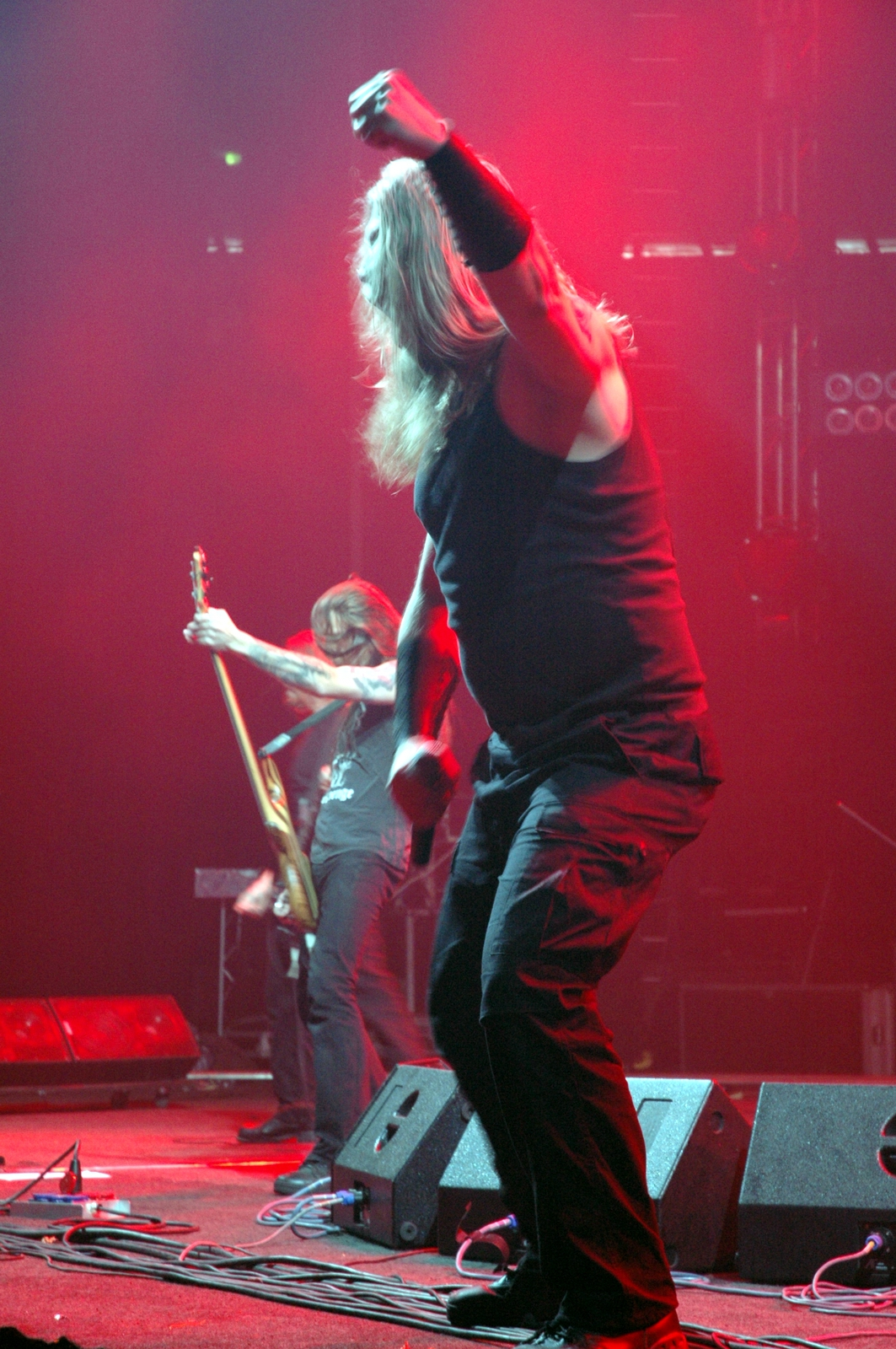 Johan Hegg from Amon Amarth at Metalmania Festival 2005 in Poland